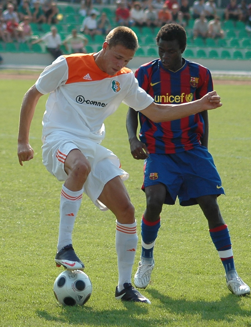 Christian Tafradjiyski